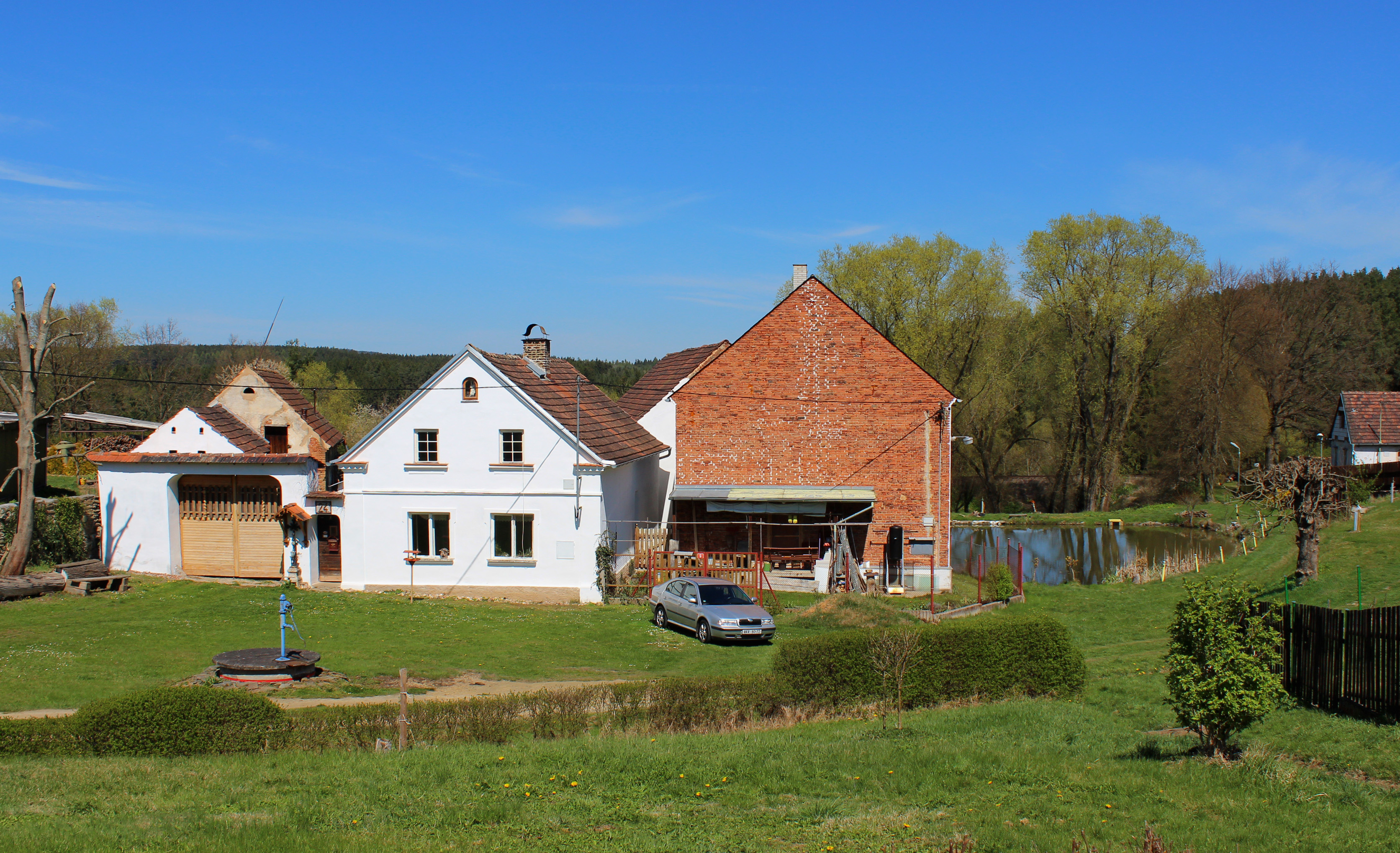 Common in Lomnička village, part of Kšice, Czech Republic